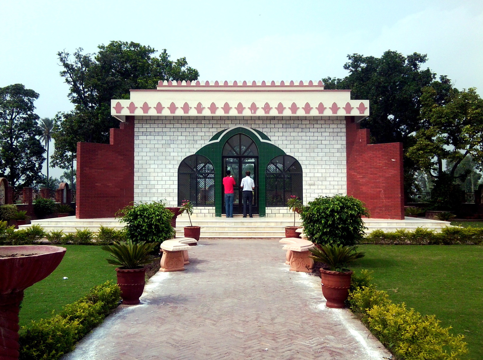 Tomb of Maulana Zafar Ali Khan is located in Wazirabad, Punjab, Pakistan